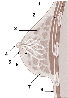 Drawing of a cross section of the breast of a human female.